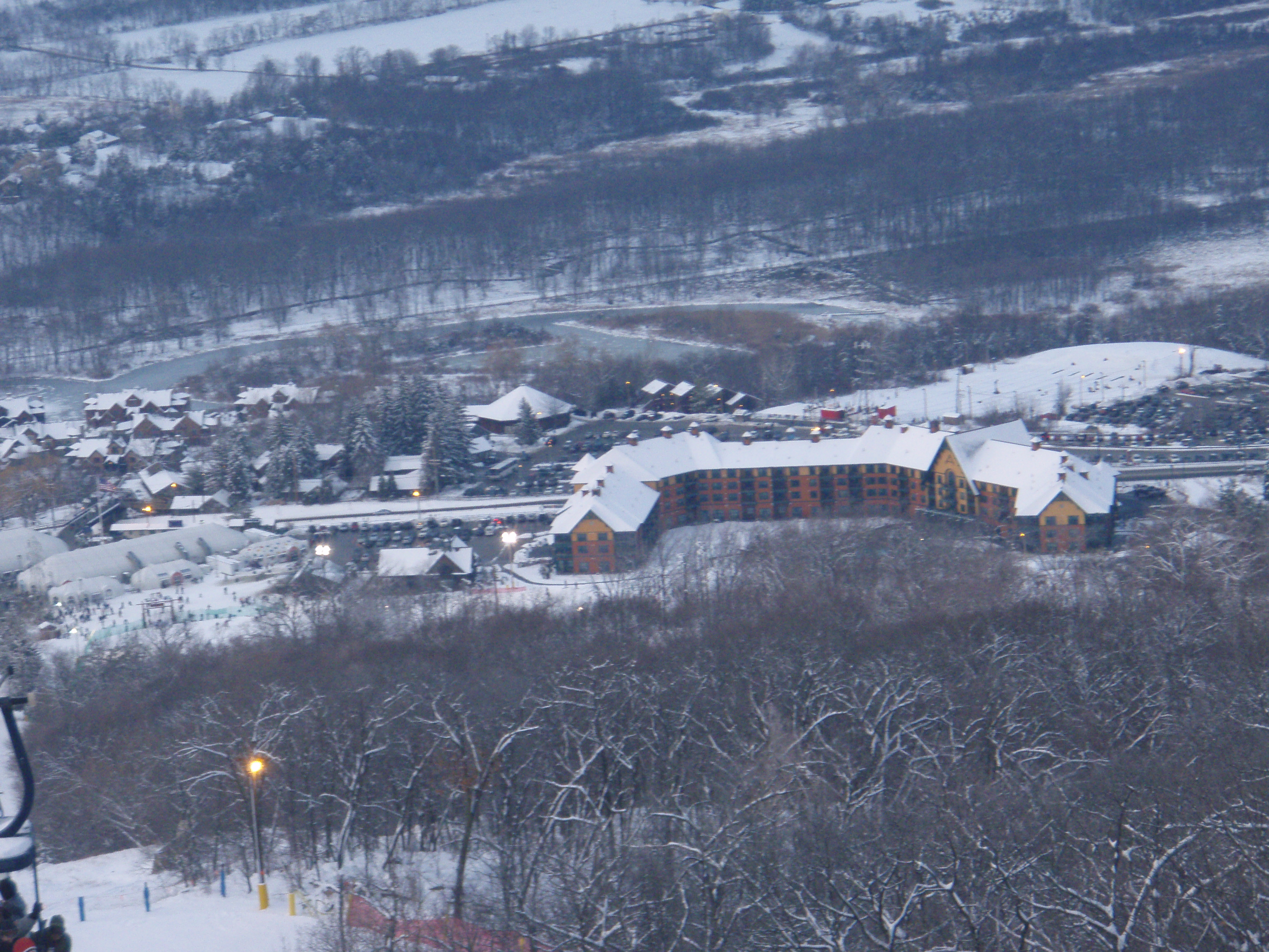 The Appalachian Hotel as seen from the gondola called The Cabriolet at Mountain Creek in Vernon, New Jersey. Picture taken by User:NHRHS2010 on February 23, 2008.